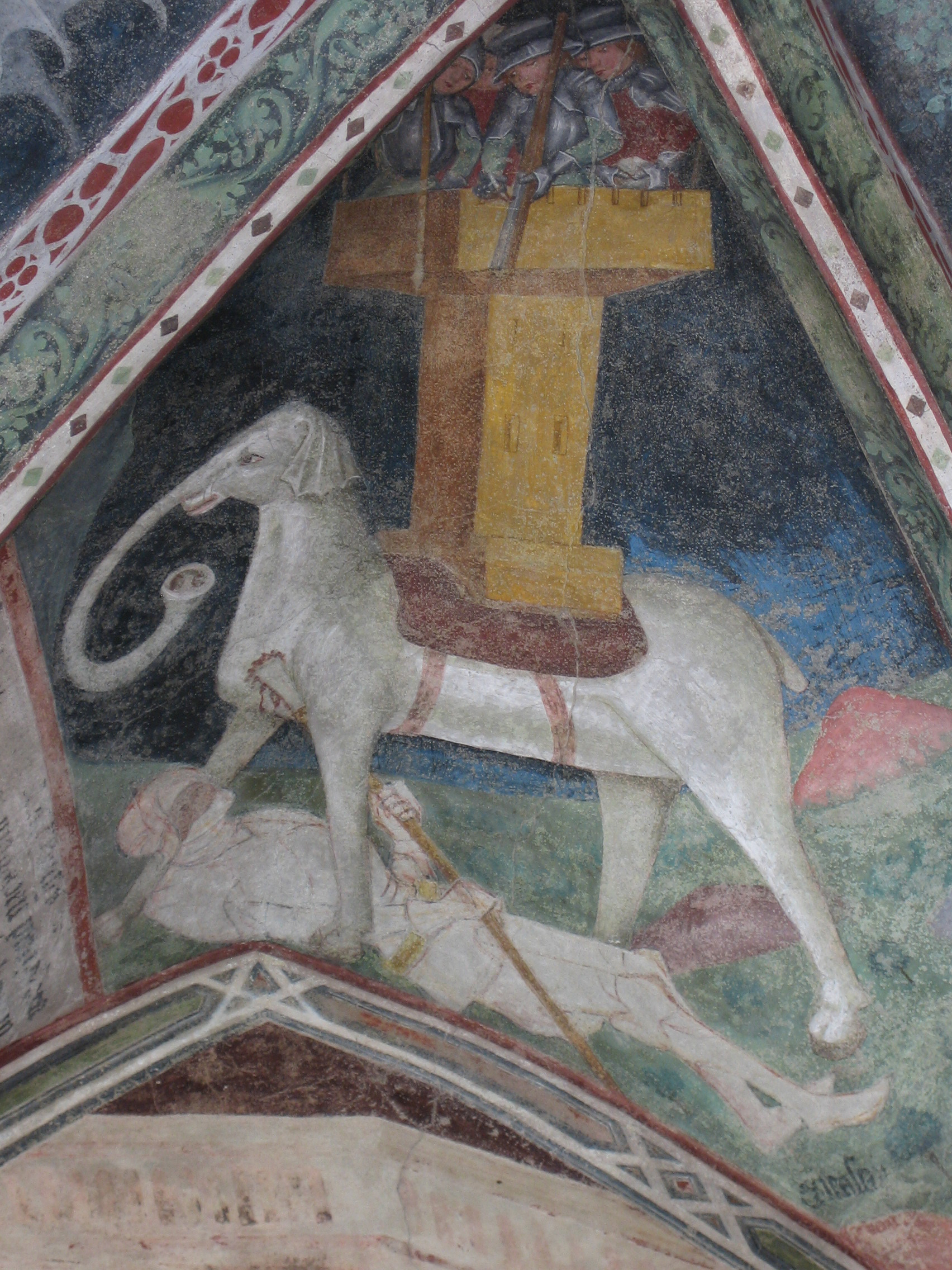 Cloister of Bressanone Cathedral, fresco detail, war elephant, 3rd arcade, Brixen, South Tyrol, Italy